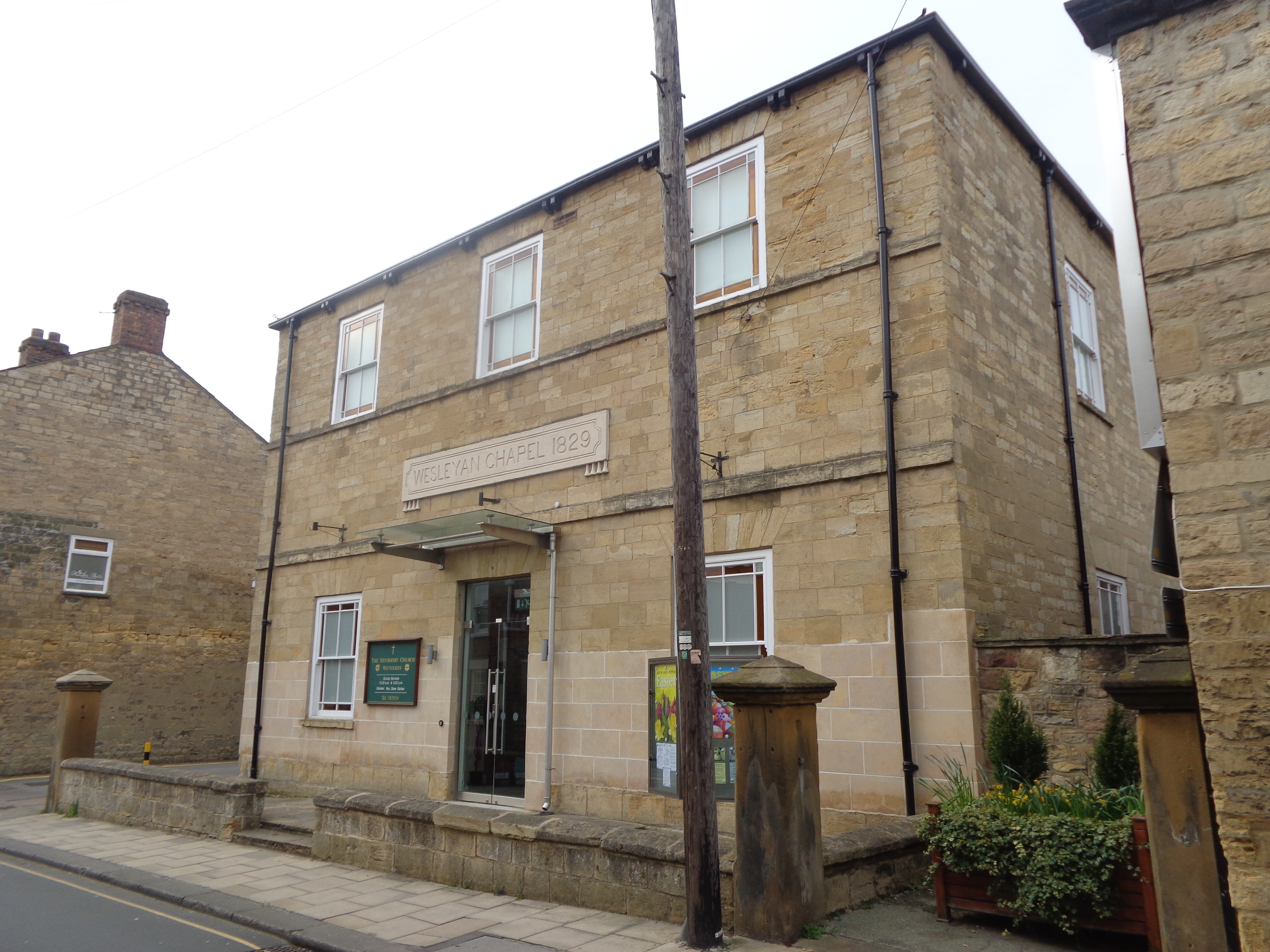 Wetherby Methodist Church, Leeds, West Yorkshire. Taken from the afternoon of Monday the 31st of March 2014.